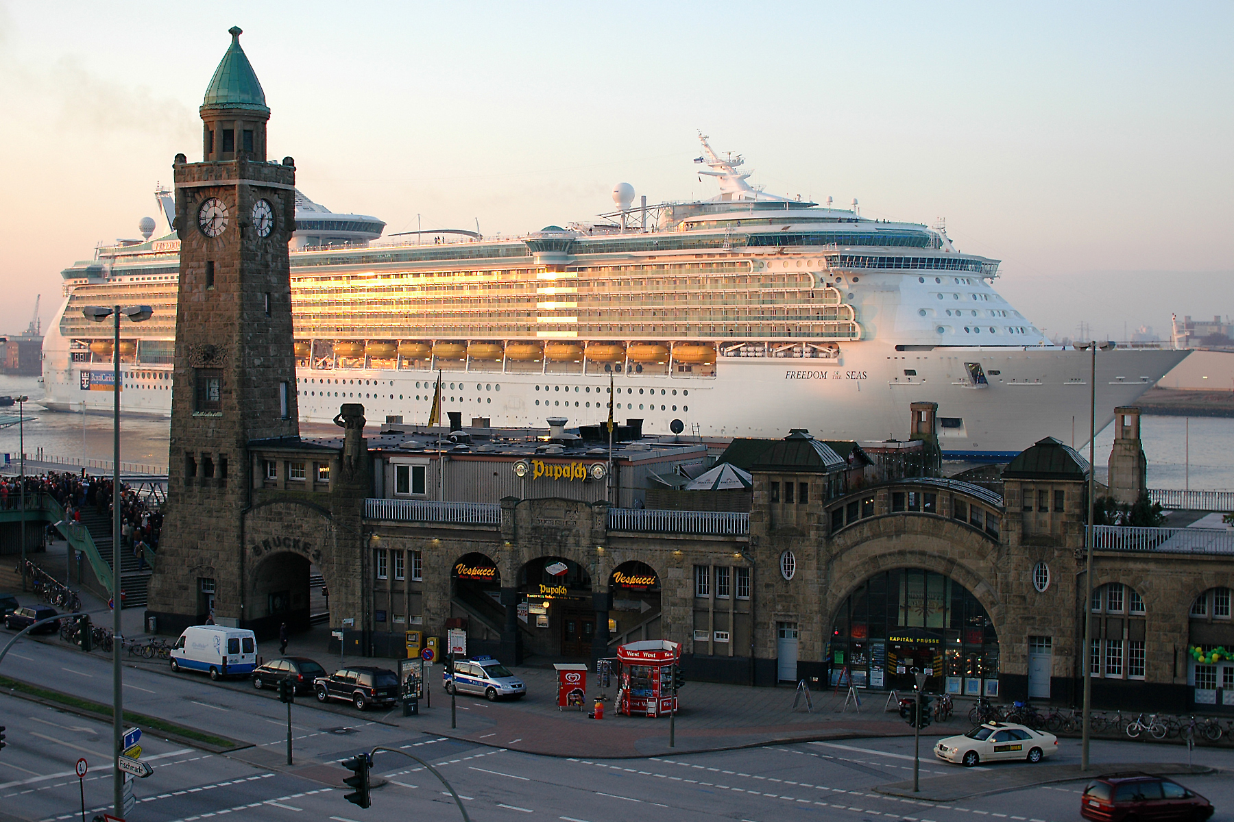 The Freedom of the Seas on Elbe River in Hamburg next to the Landungsbrücken